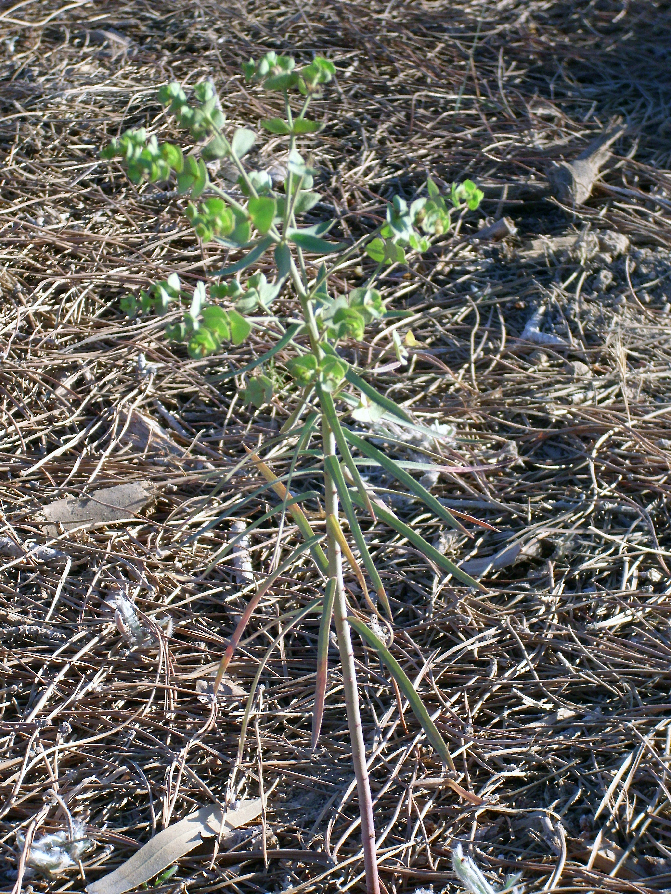 Euphorbia segetalis var. pinea habit, La Mata, Torrevieja, Alicante, Spain